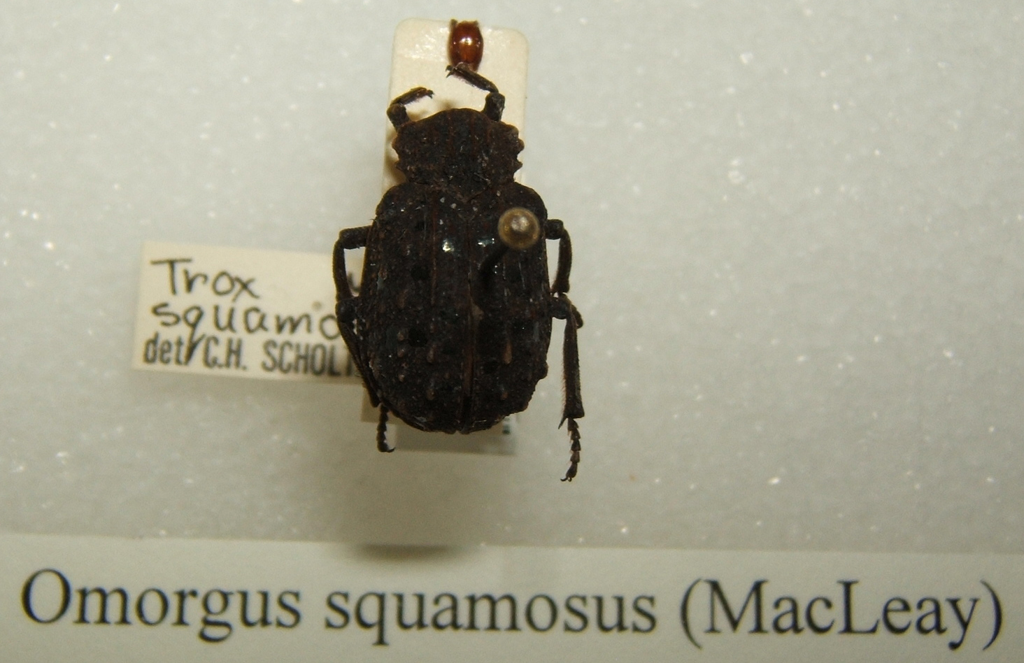 Omorgus squamosus adult taken by Shawn Hanrahan at the Texas A&M University Insect Collection in College Station, Texas.